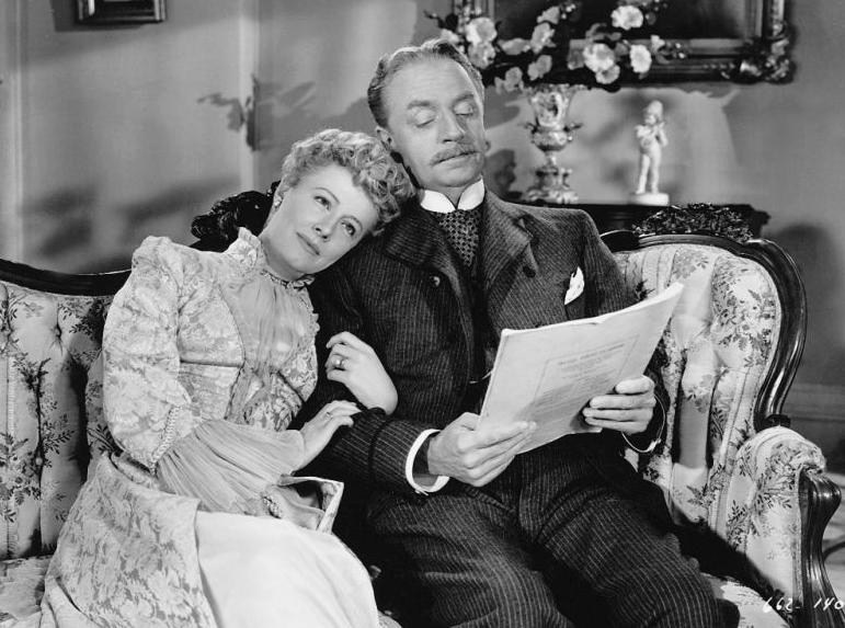 Irene Dunne and William Powell in the film Life with Father (1947) - cropped screenshot